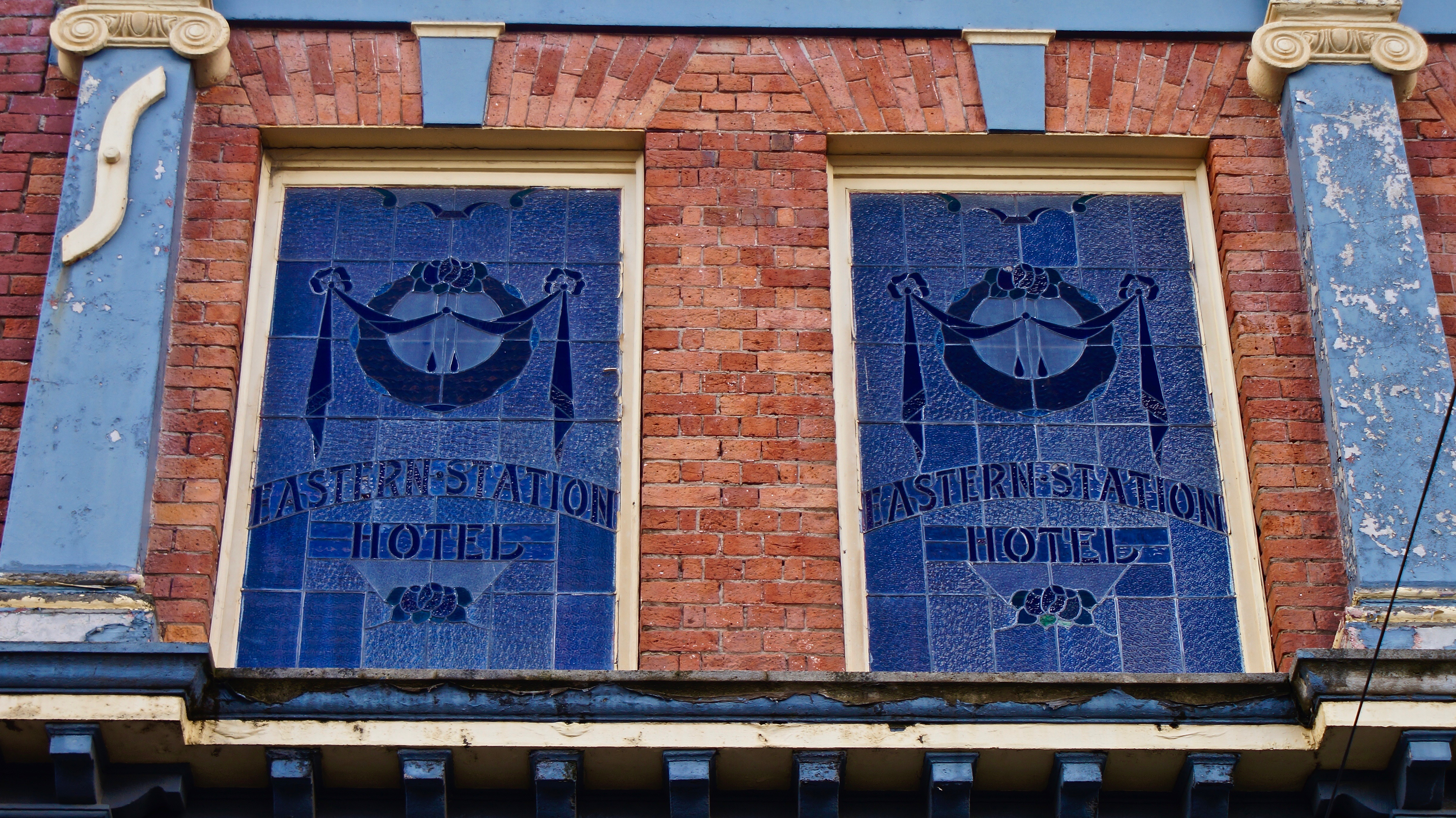 The window of the old Eastern Station Hotel. The building is now a pub and backpackers.